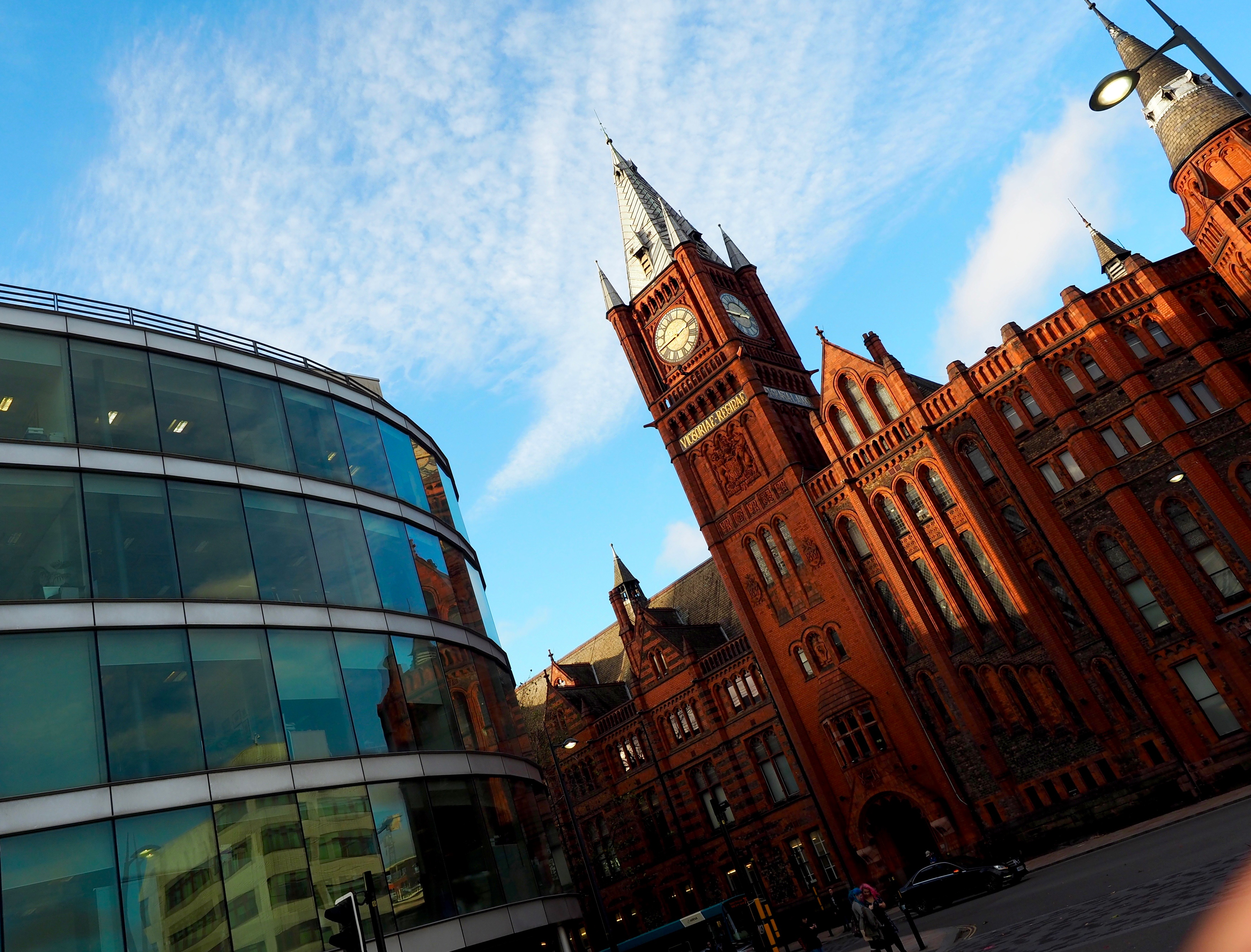 The Grade II* Listed Victoria Building (Background) at the University of Liverpool, located next to the Foundation Building, the administrative centre, on the left.